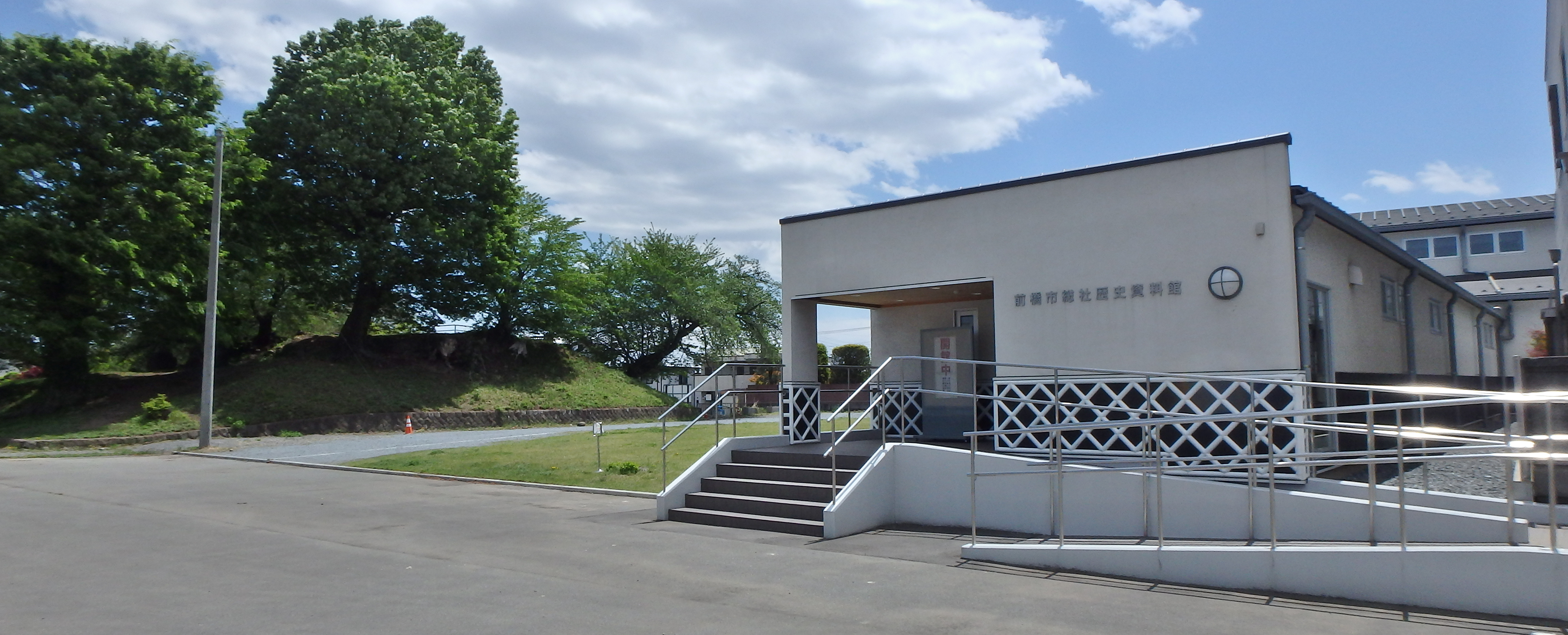 Jyaketsuzan Kofun and Maebashi Sojya History museum, Gunma Prefecture,Japan